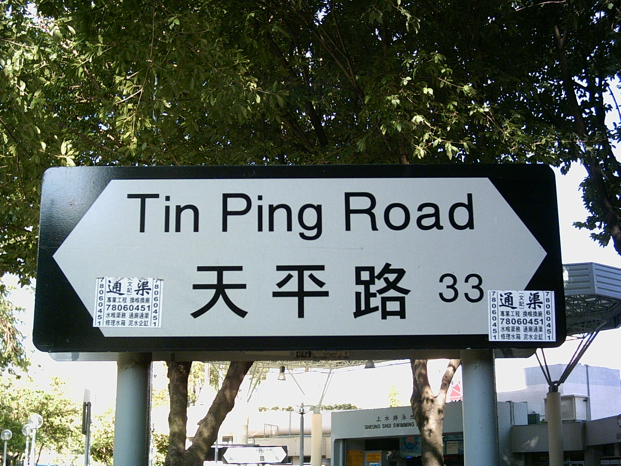 The sign for Tin Ping Road with drain-clearing advertisements on it. Taken by myself in August, 2006.